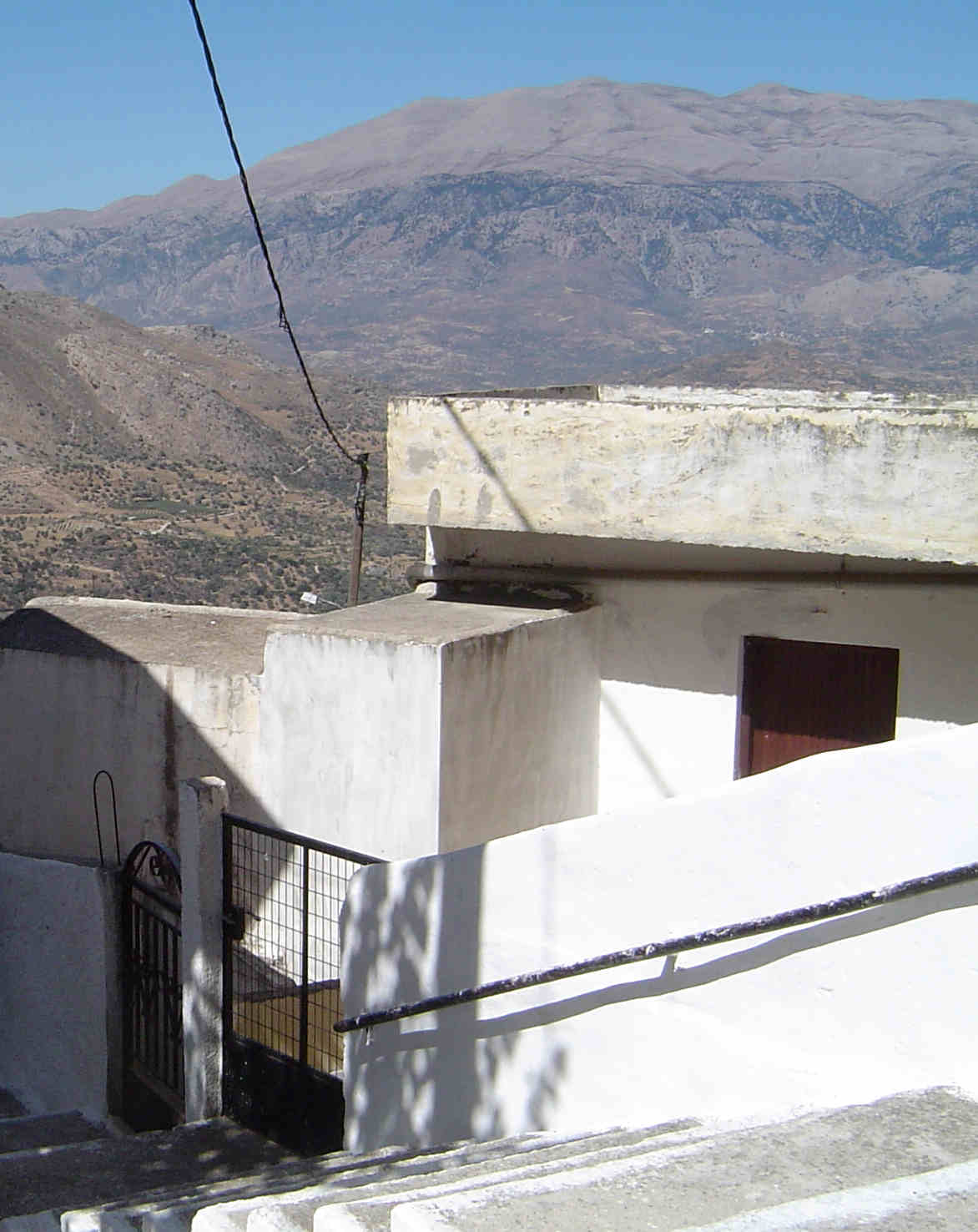 photo prise par moi-même en août 2005 (PS: sorry for typo in file name: should be versant of course)